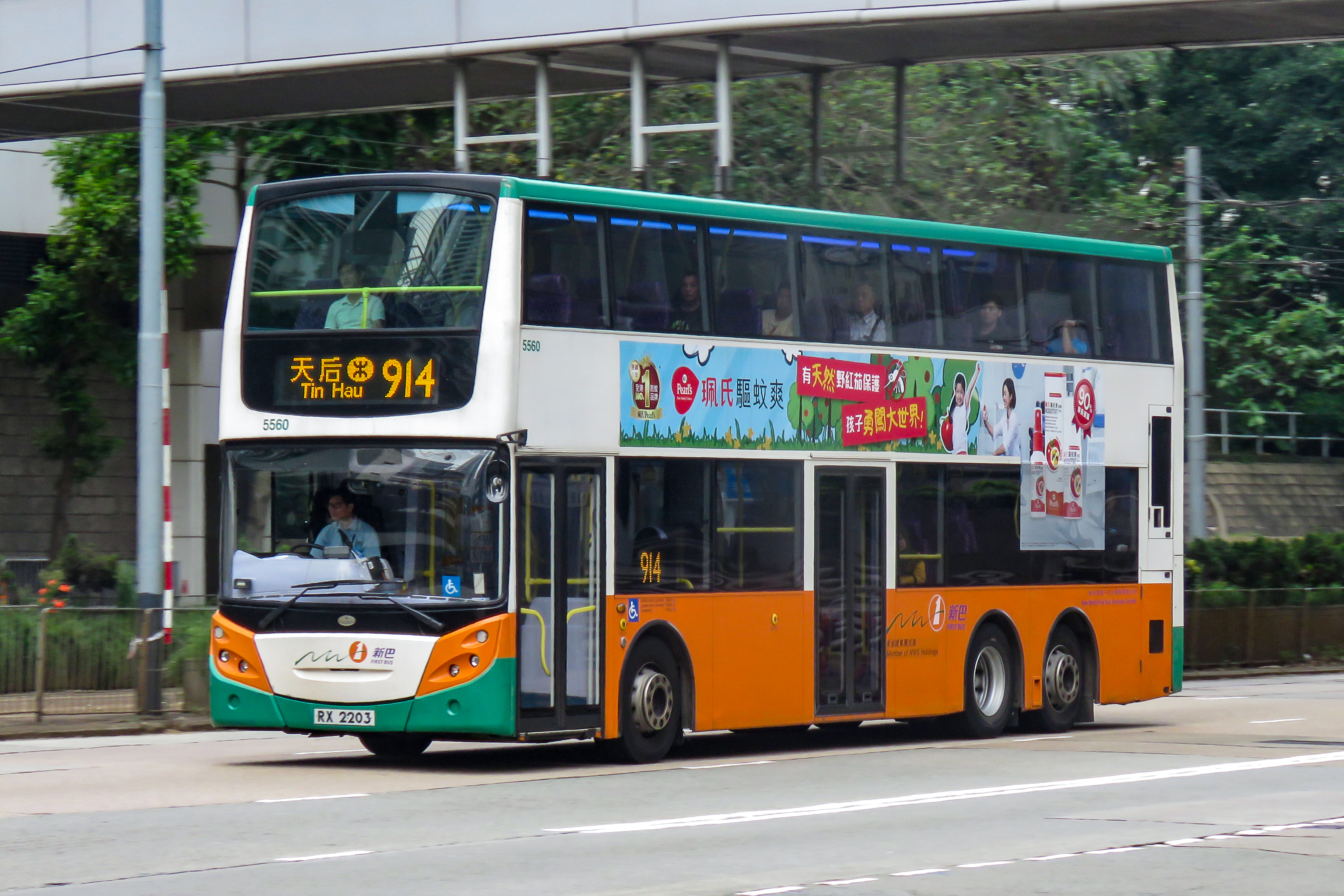 Pearl's another product?